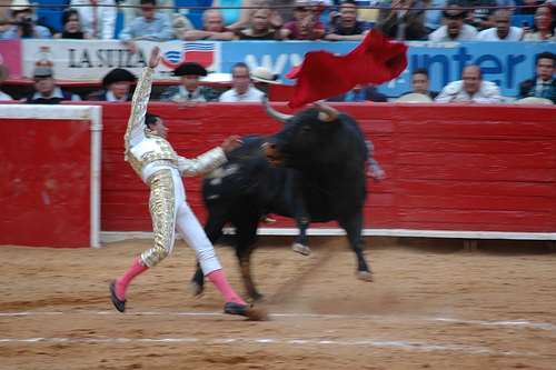 Mexican bullfight, matador, bullfighting, MexicoEl tropiezo